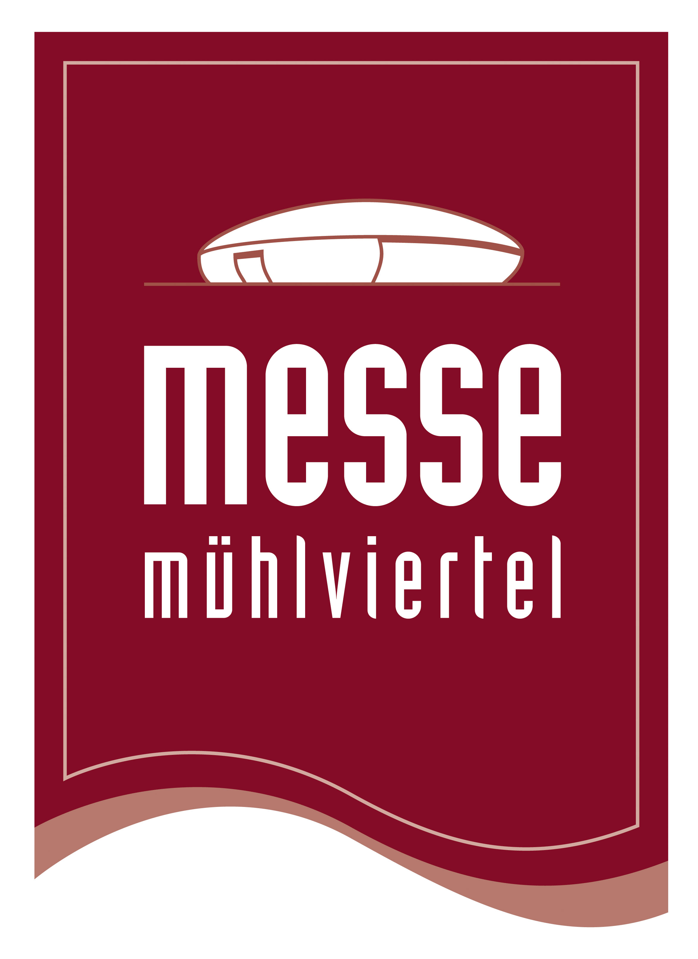 Trade fair Mühlviertel in Freistadt, Upper Austria